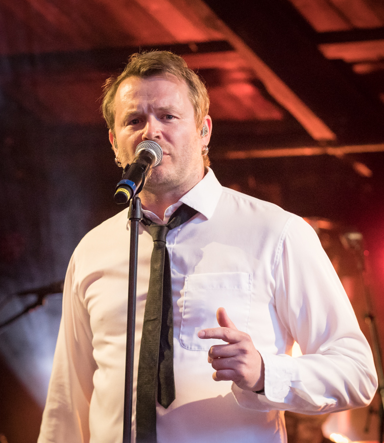 Knut Anders Sørum at the stage of Christians Kjeller. The concert was part of Kongsberg Jazzfestival and took place on 06. July 2017 in Kongsberg. Lineup: Knut Anders Sørum (vocal) Knut Bjørnar Asphol (Unknown instrument) Iver Olav Erstad (Unknown instrument) John Anders Raaken (Unknown instrument) Jan Tore Øverstad (Unknown instrument) Karin Okkenhaug Seim (Unknown instrument) Hans Esben Gihle (Unknown instrument) Lars Gunnar Sveum (Unknown instrument) Christian Dyresen (Unknown instrument)